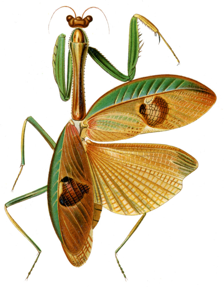 Stagmatoptera supplicaria (order: Mantodea, family: Mantidae, subfamily: Stagmatopterinae, genus: Stagmatoptera, species: S. supplicaria)